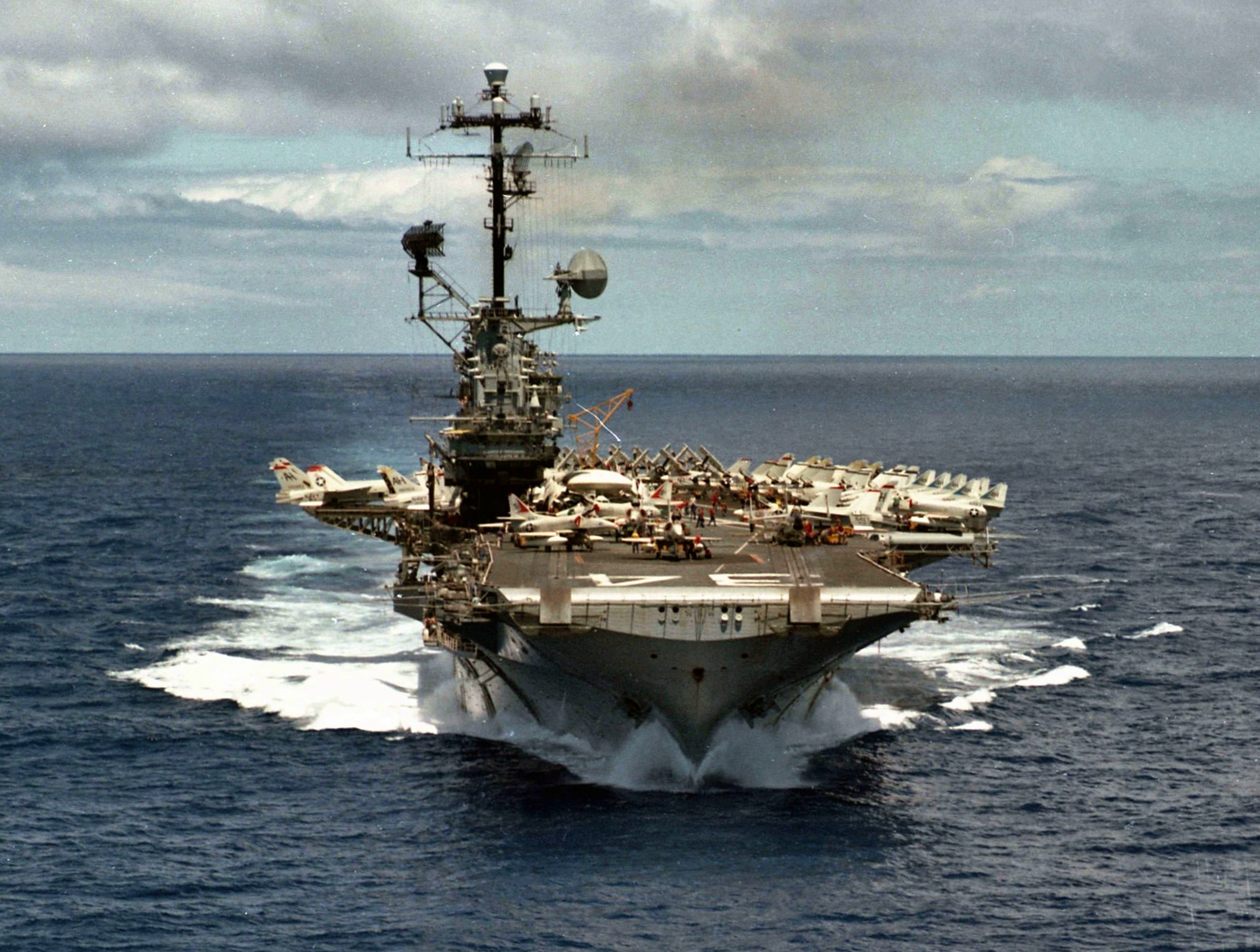 The U.S. Navy aircraft carrier USS Oriskany (CVA-34) en route to the Western Pacific for operations off Vietnam, 23 June 1967. Oriskany, with assigned Attack Carrier Air Wing 16 (CVW-16), was deployed to Vietnam from 16 June 1967 to 31 January 1968.